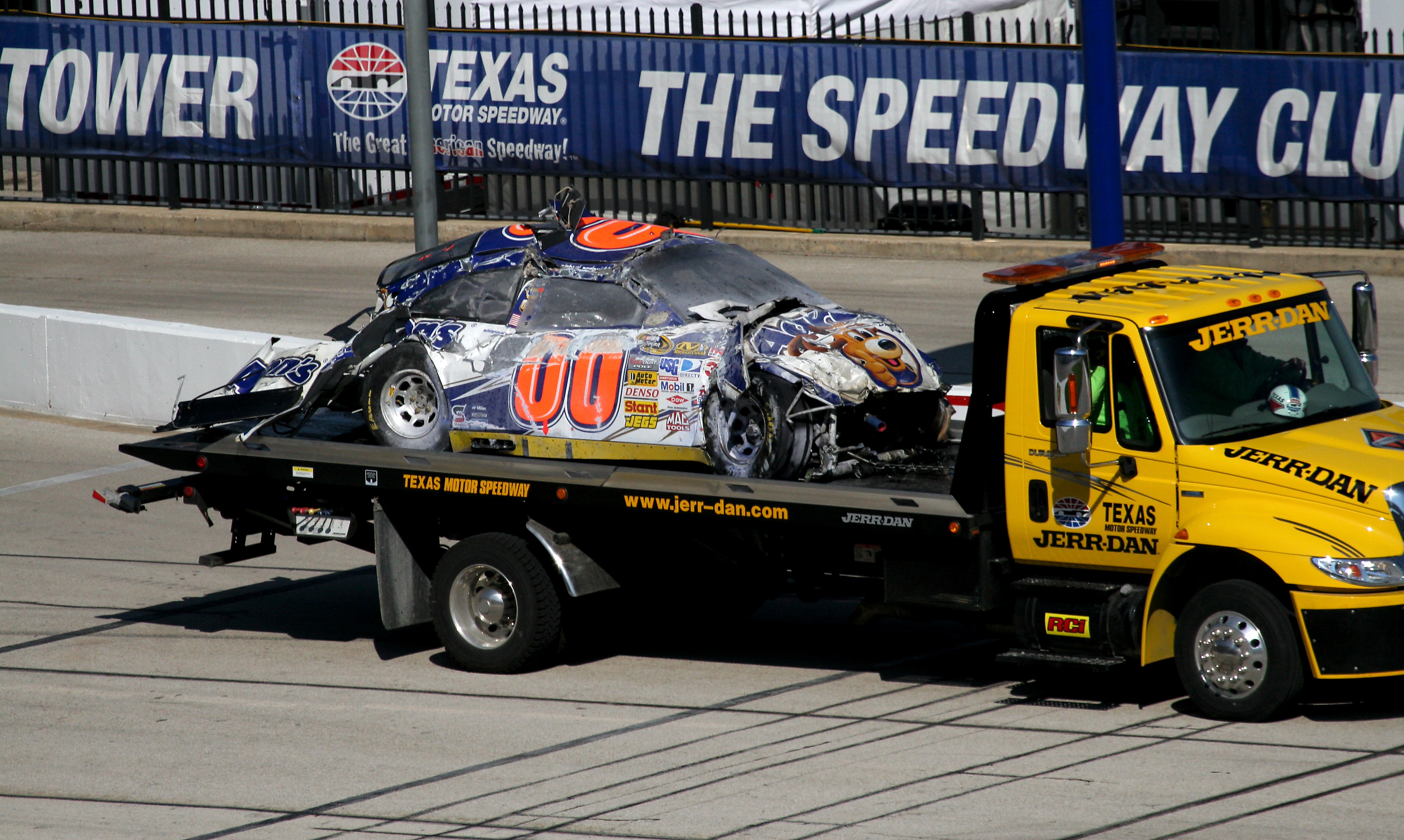 A flatbed hauler is needed to transport the remains of NASCAR driver Michael McDowell Toyota Camry Car of Tomorrow racecar after a huge crash.